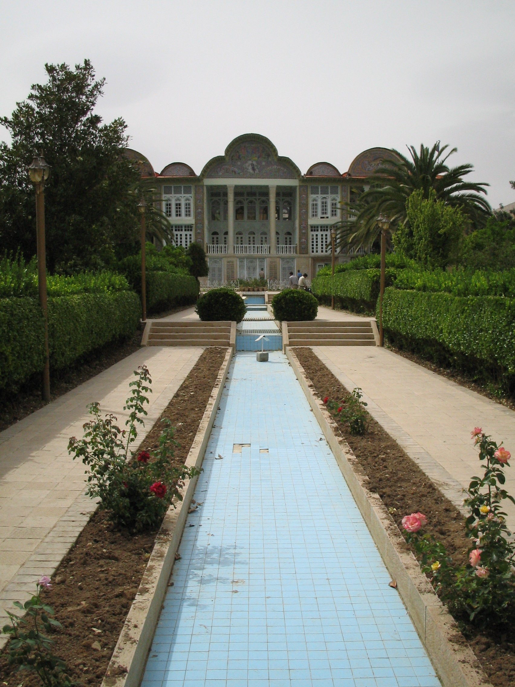 Bagh-e-Eram Shiraz, Fars province, Iran.